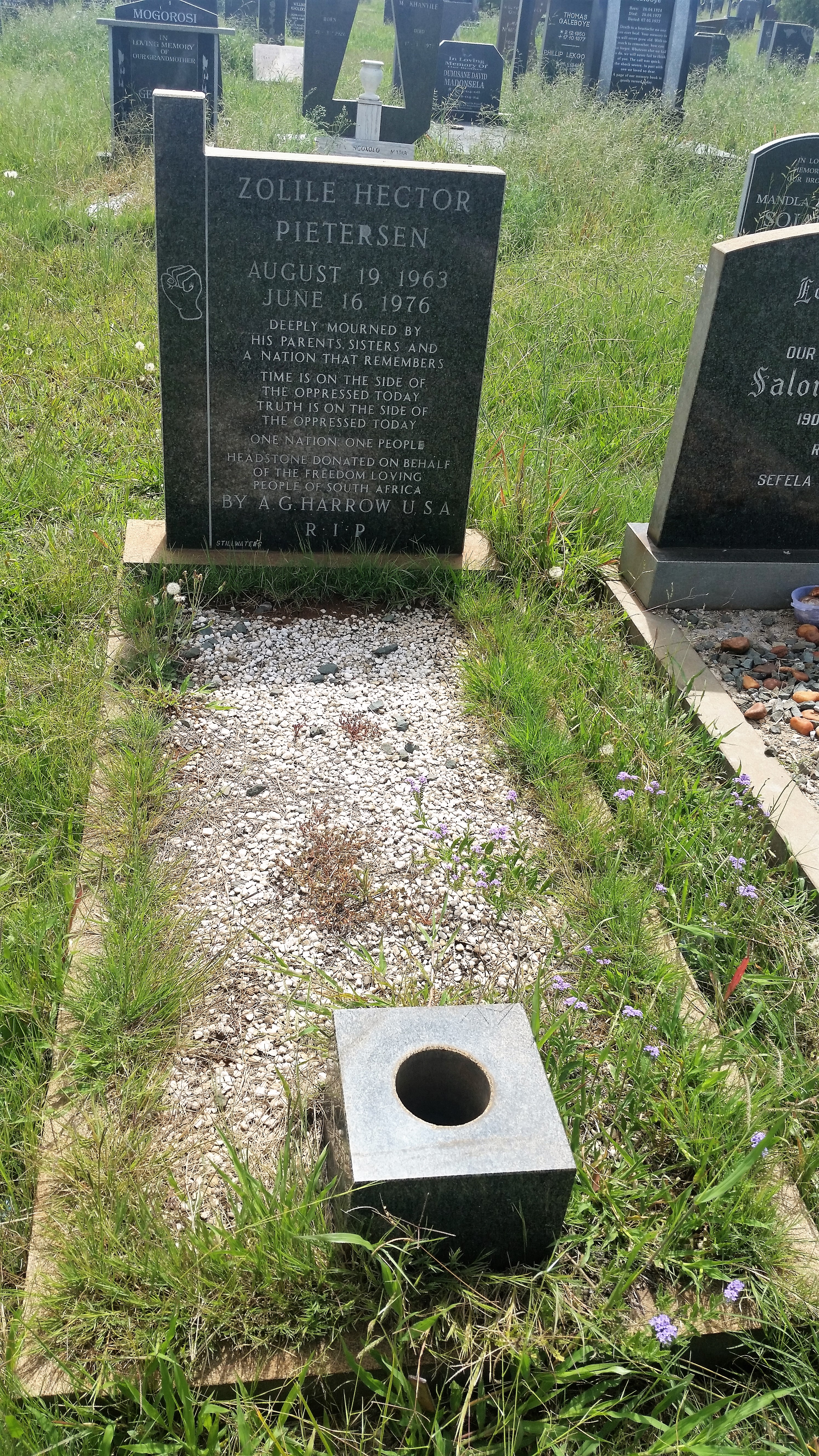 The grave of Hector Pieterson at Avalon Cemetery, Soweto, Johannesburg, South Africa.